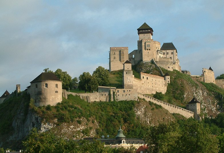 Hrad . Trenčín Castle, Trenčín, Slovakia Location: Trencín.